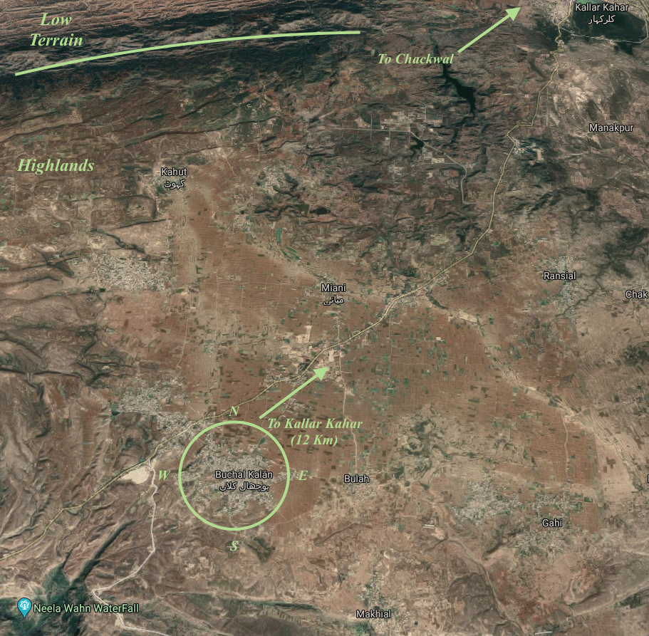 Buchal Kalan Ariel